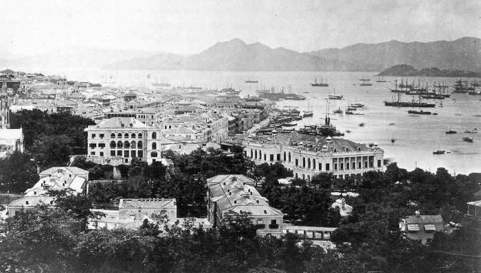 Part of Central district, Hong Kong, view from up-hill, 1895.